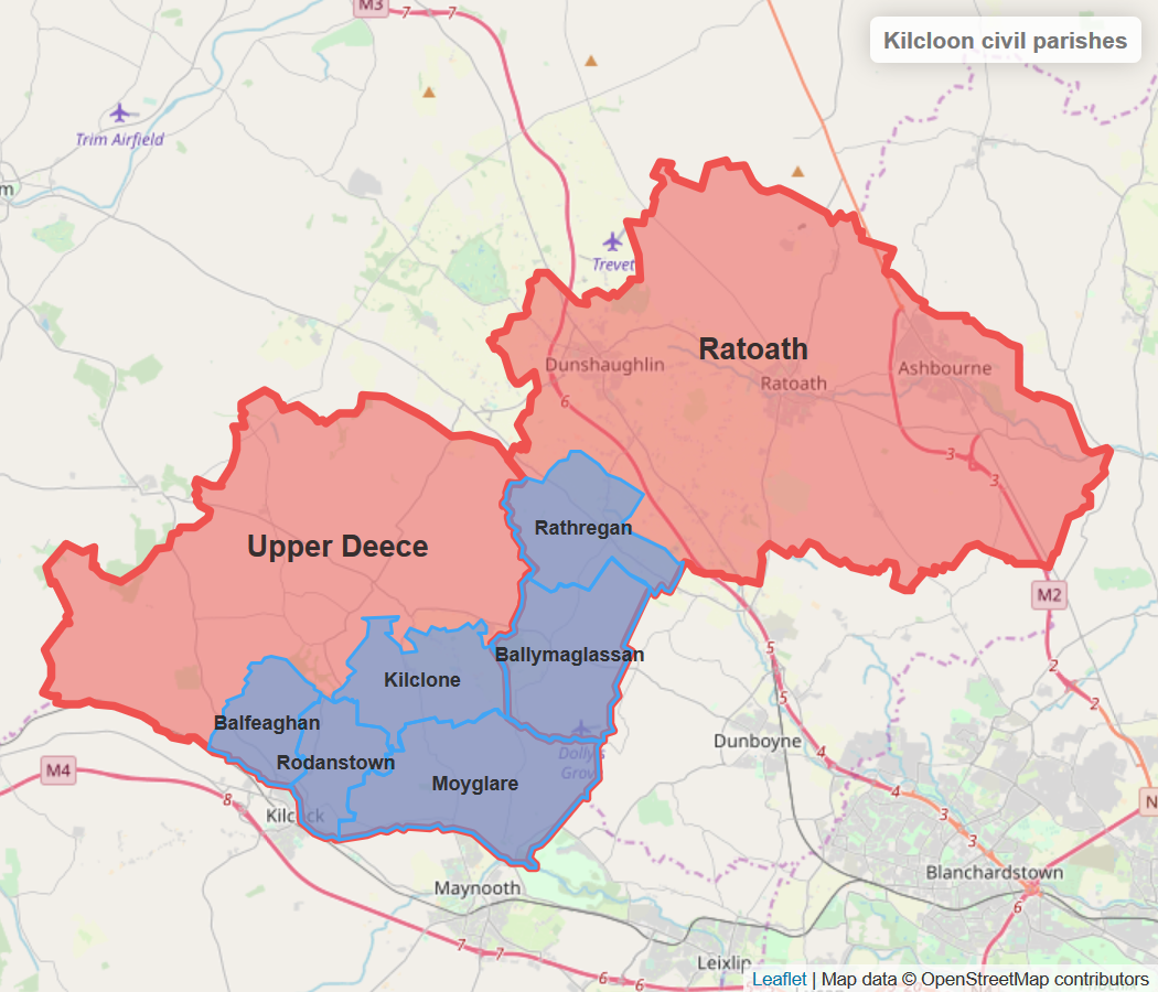 OpenStreetMap image of the civil parishes in Kilcloon overlaid on the containing baronies. Created using Leaflet JavaScript library. Map data from townlands.ie.